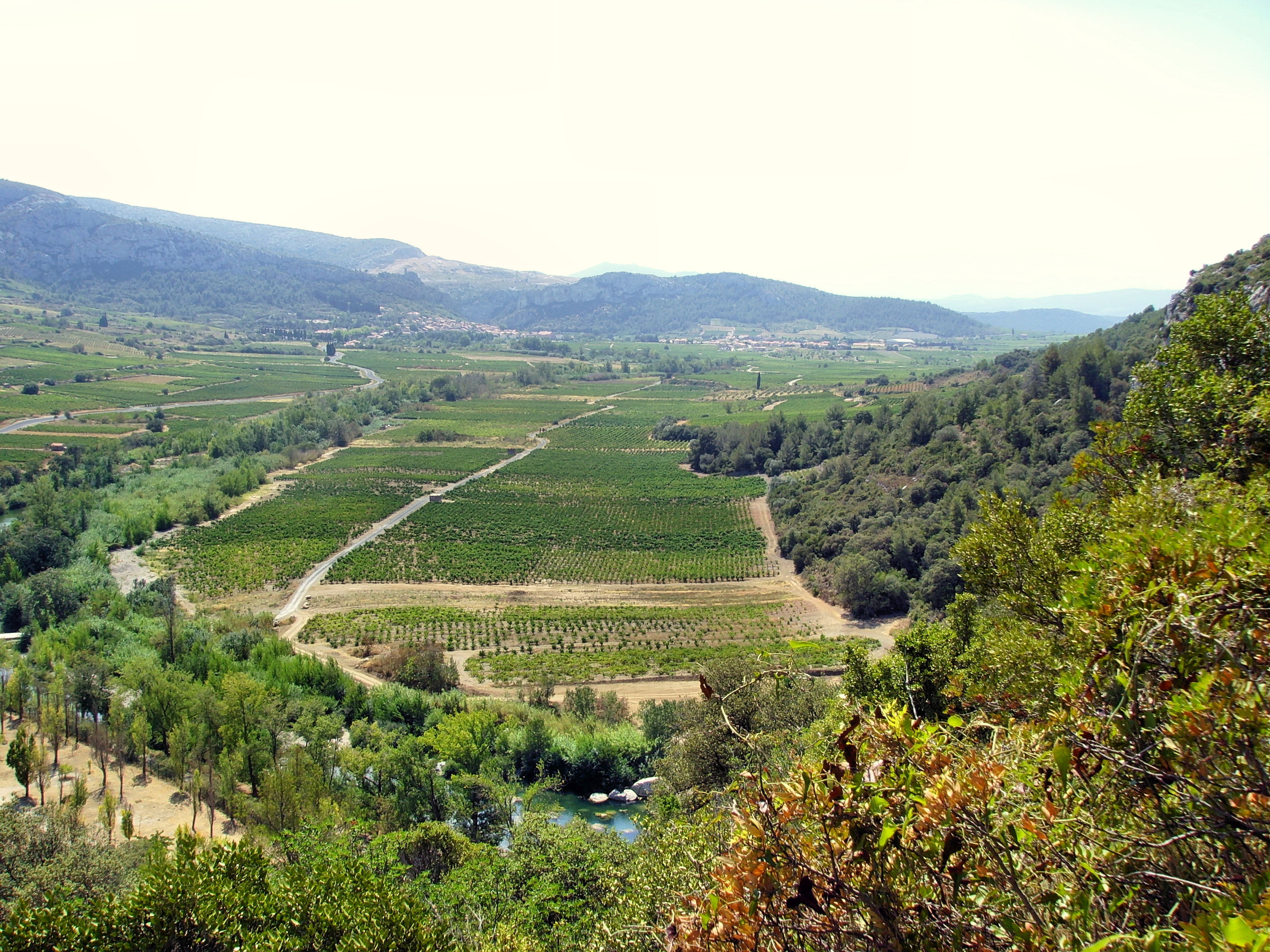 Arago-cave, near Tautavel (Perpignan-region), France: view from the entrance across the Verdouble valley towards Tautavel